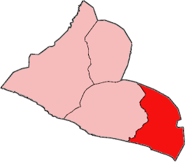 Map of Grand Kru County, Liberia showing Lower Kru Coast District; created with the GIMP. Made by User:Acntx.